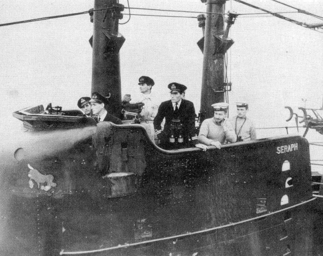 HMS Seraph on patrol